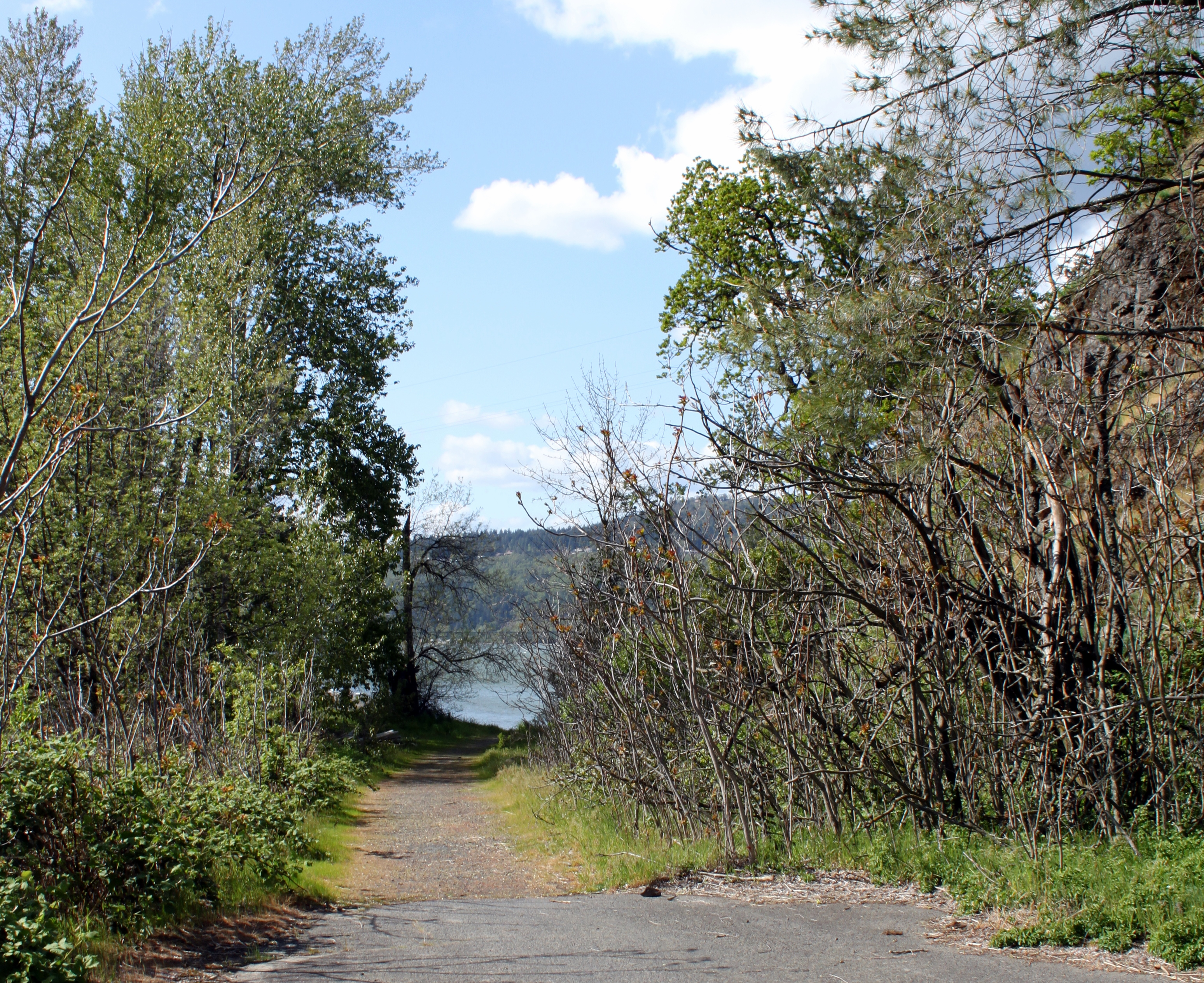 Koberg Beach State Recreation Site along the Columbia River.